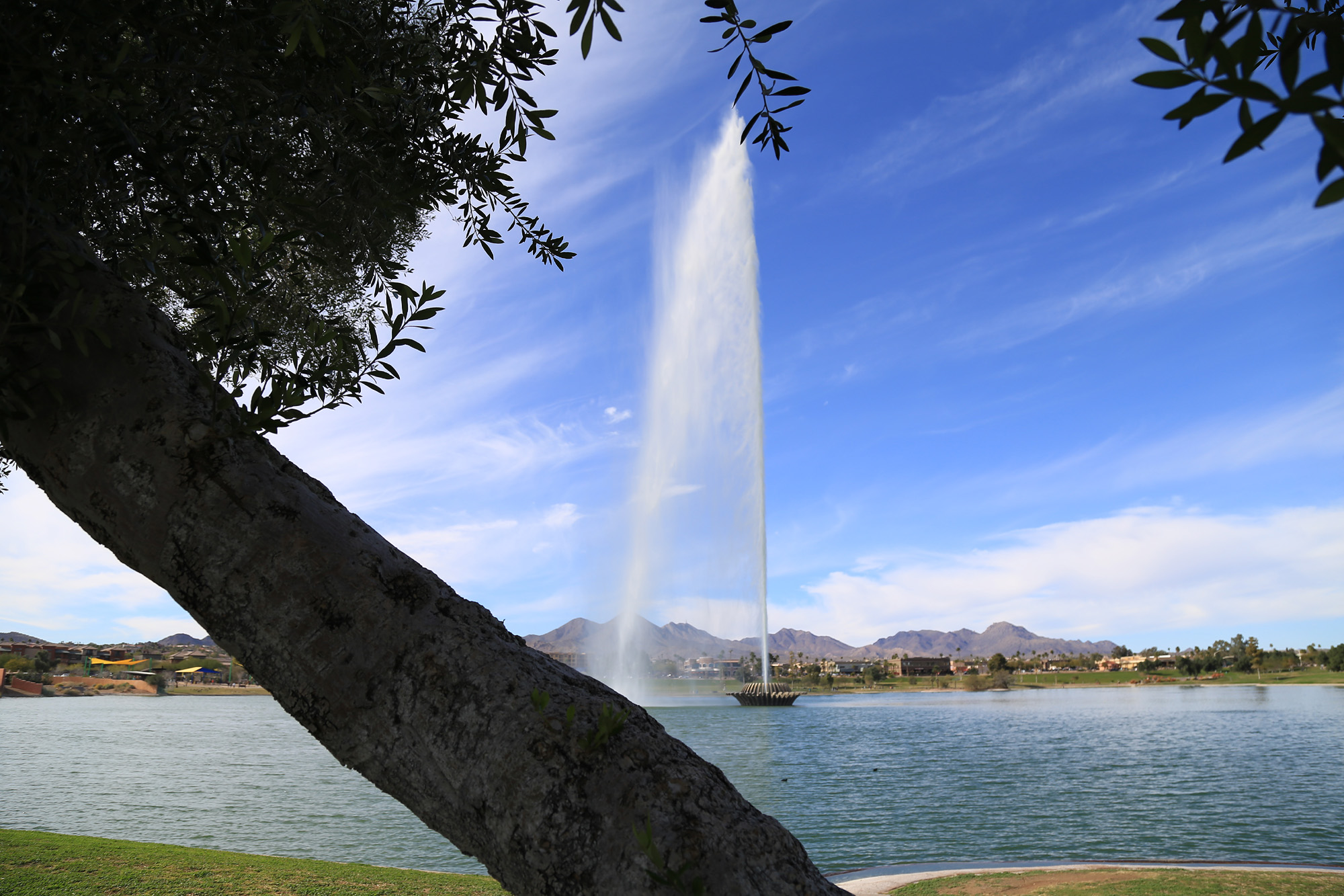 Fountain Hills Arizona